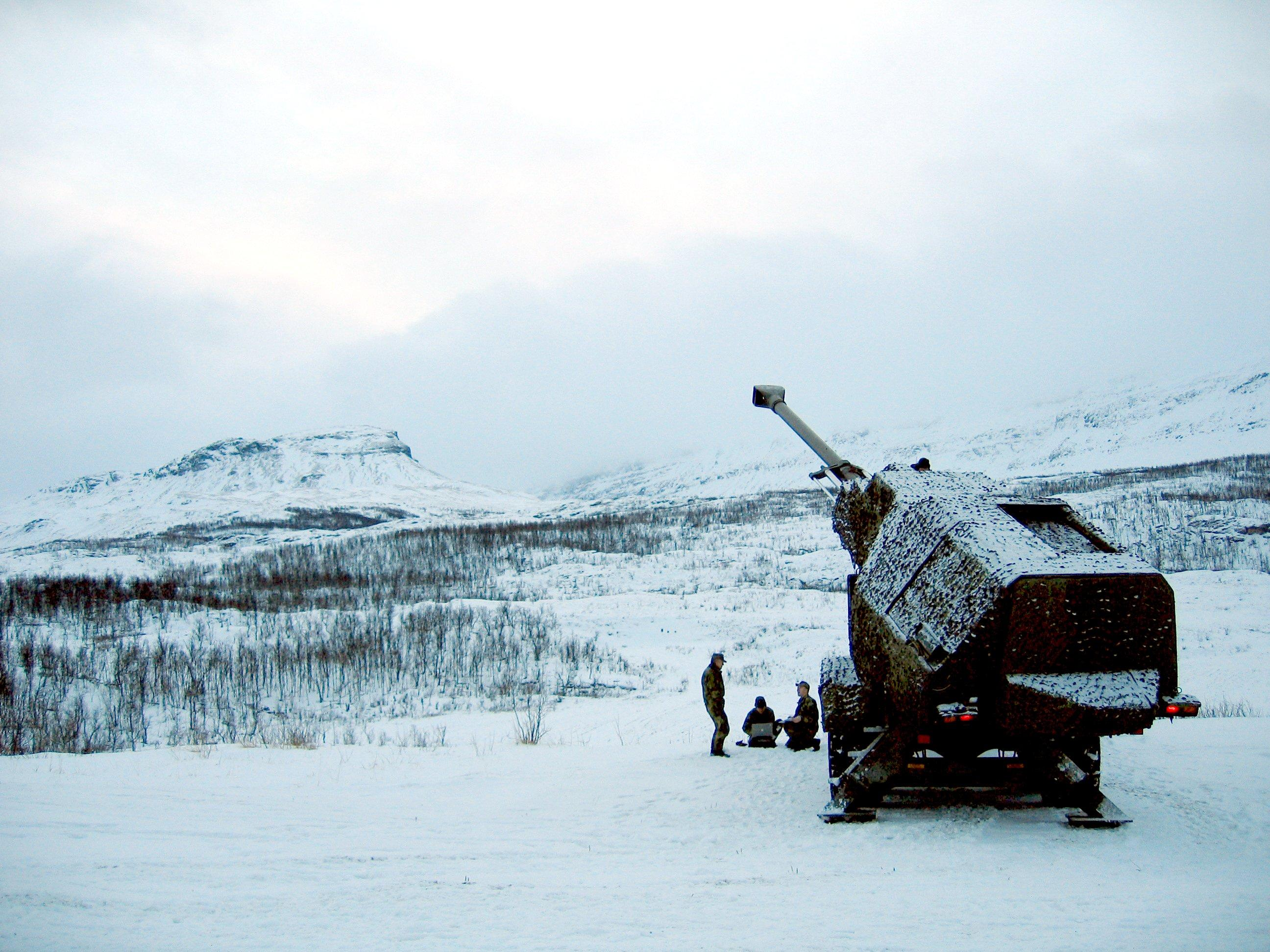 An ARCHER Artillery System in position